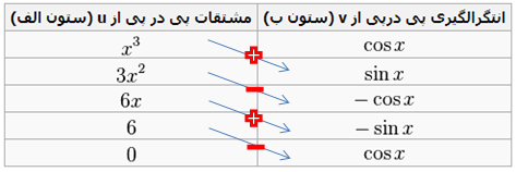 Signing method in Tabular integration by parts